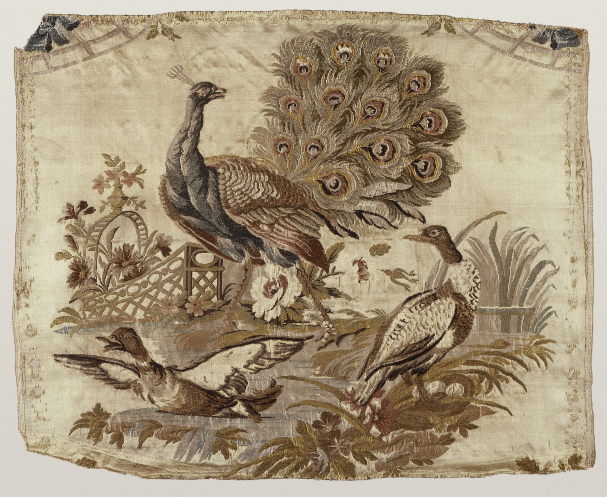 France, Lyon, circa 1765 Textiles; panels Silk and chenille brocade, compound weave on silk satin ground Gift of Mrs. Frederick Kingston (M.59.11.1) Costume and Textiles